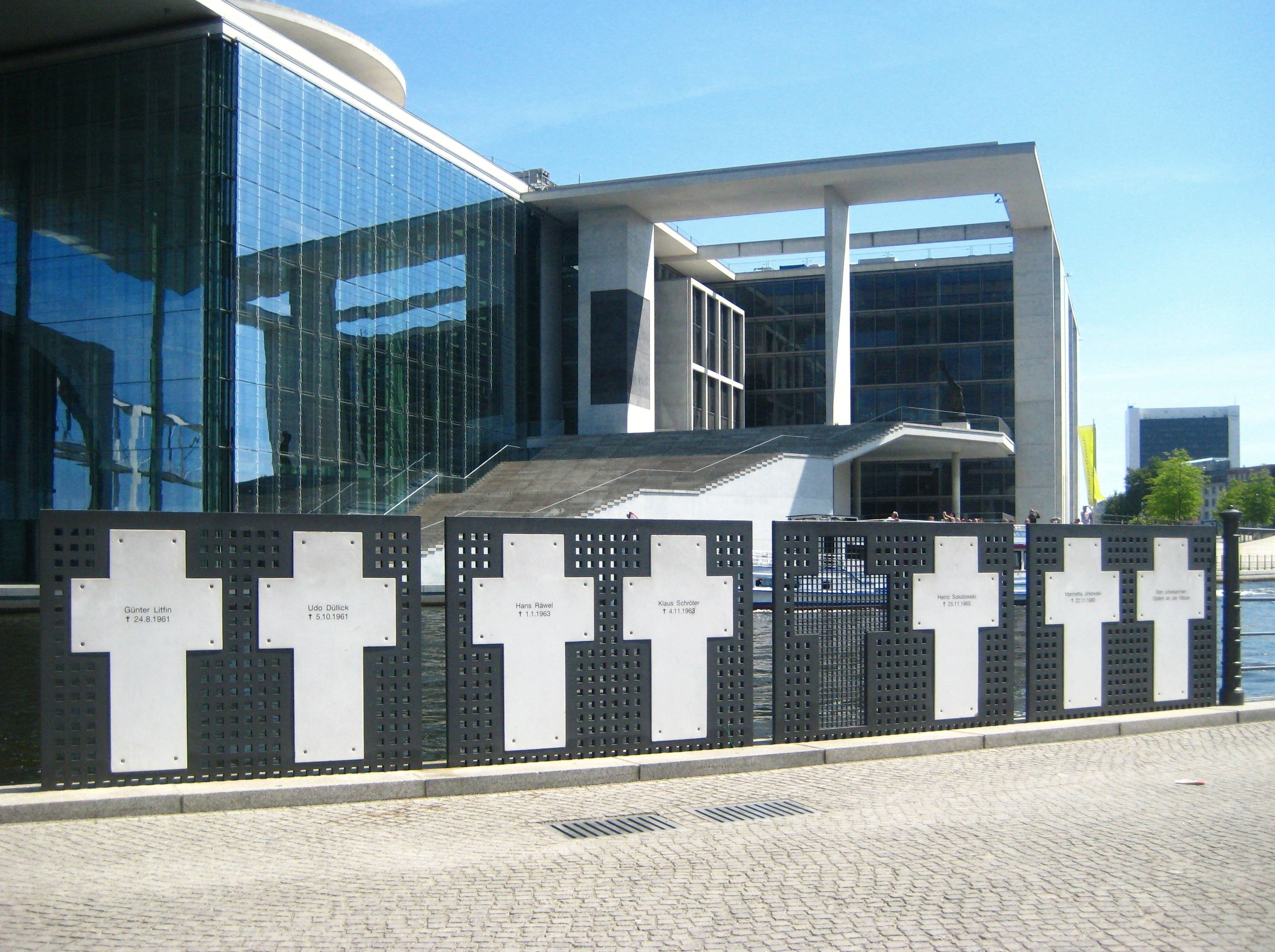 Memorial crosses for victims of the Berlin Wall at the bank of the Spree in Berlin with the Marie-Elisabeth-Lüders-Haus in the background.